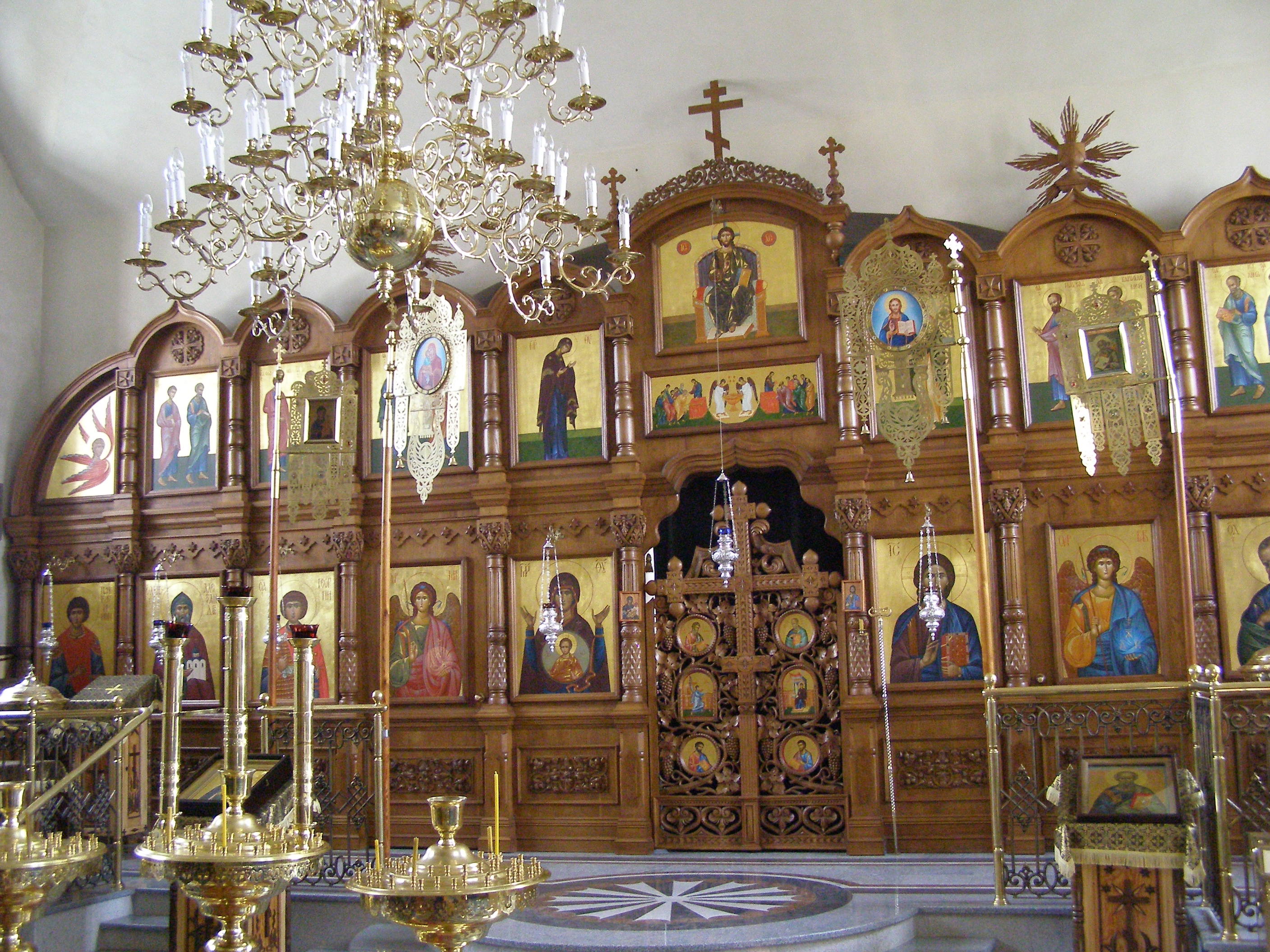 Supraśl - St. John Orthodox church inside the monastery - iconostasis